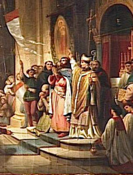 Election of Boniface of Montferrat as leader of the Fourth Crusade.